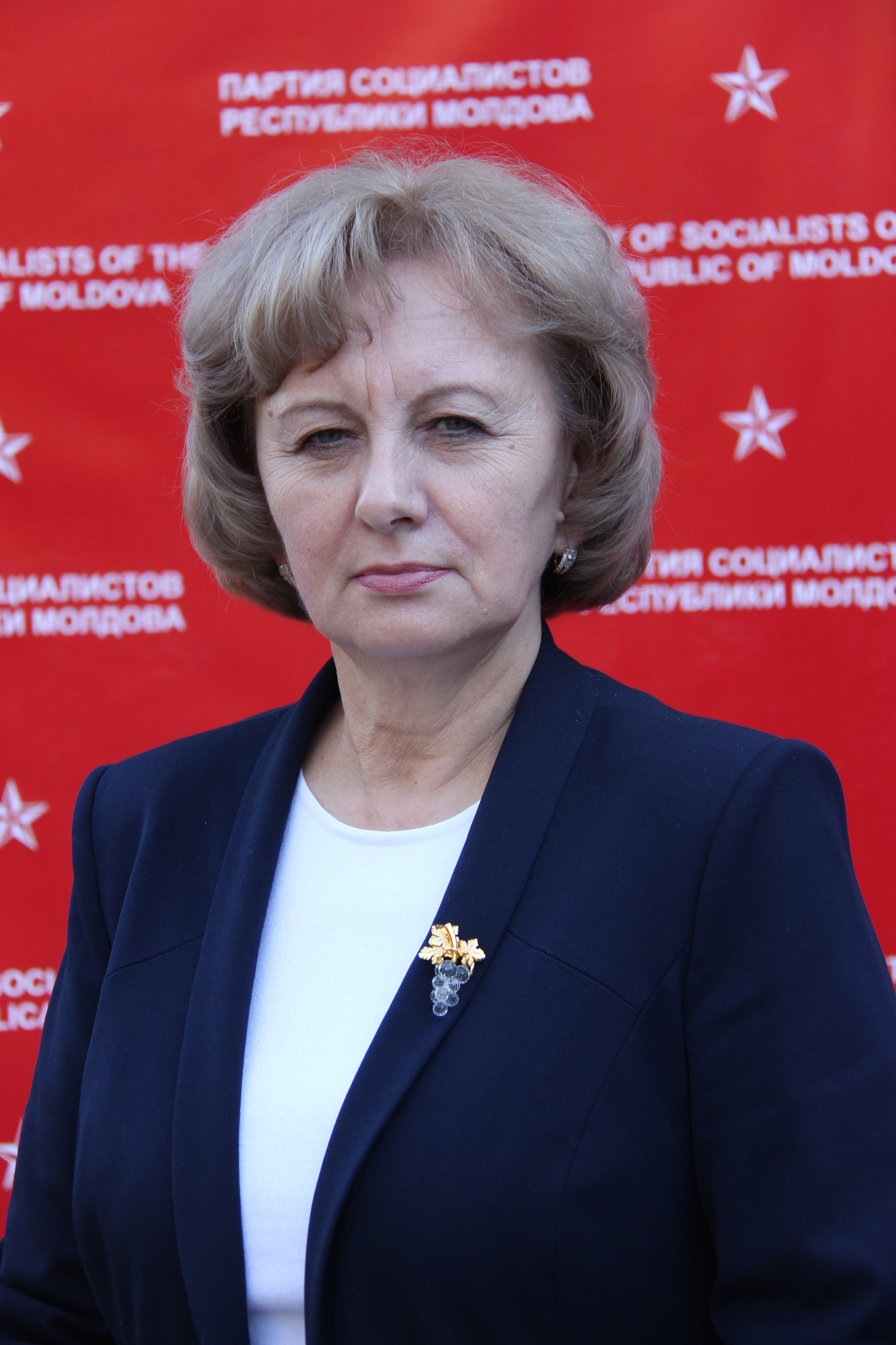 Zinaida Greceanîi in 2014.